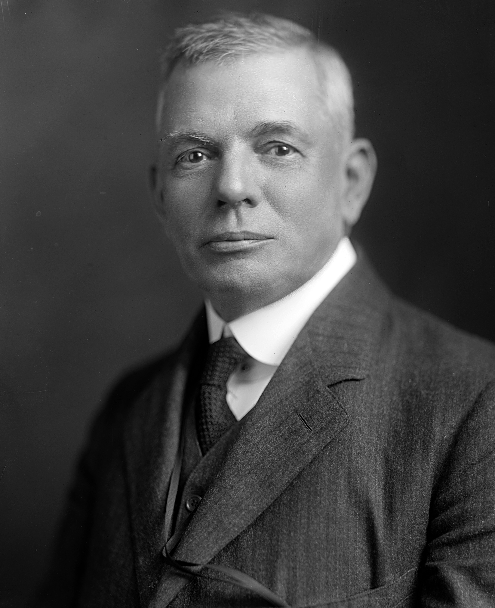 Thomas W. Harrison, US Representative from Virginia